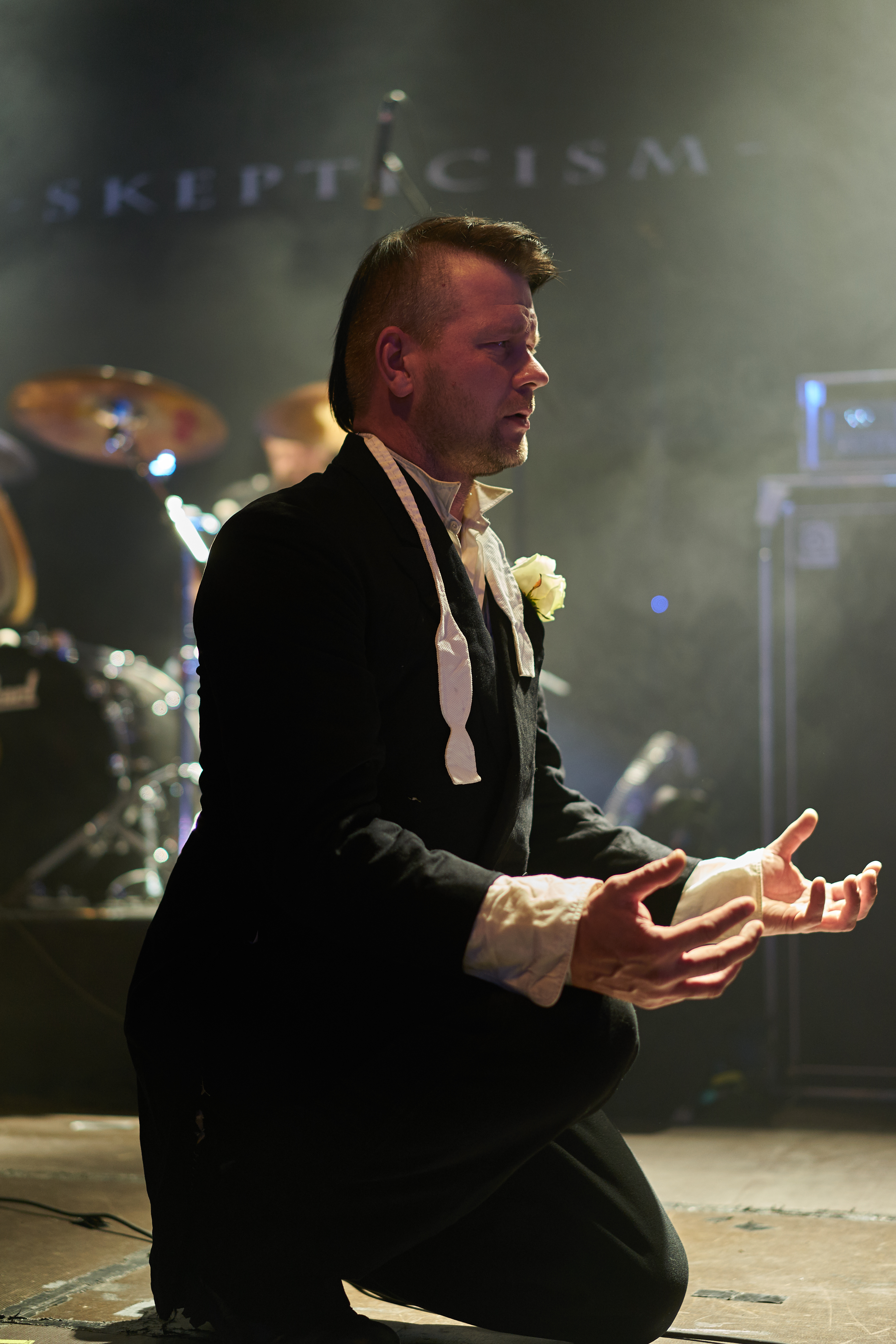 Finnish band Skepticism at Hammer of Doom Festival, Würzburg, Posthalle, 21.11.2015 Festivalsommer This photo was created with the support of donations to Wikimedia Deutschland in the context of the CPB project "Festival Summer". Personality rights warning Although this work is freely licensed or in the public domain, the person(s) shown may have rights that legally restrict certain re-uses unless those depicted consent to such uses. In these cases, a model release or other evidence of consent could protect you from infringement claims.